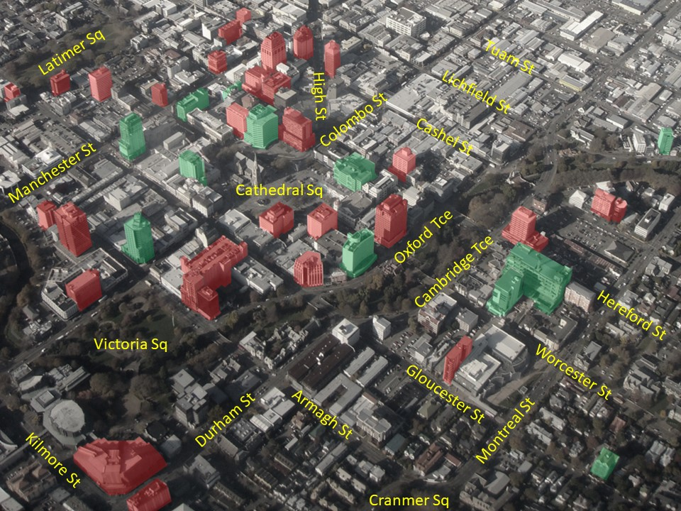 Aerial photo of central Christchurch, looking south-east. High-rises are colour-coded depending on their status as of 17 February 2013. See article for legend.